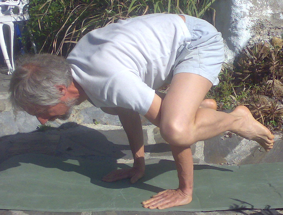 Kakasana (Crow) yoga pose.